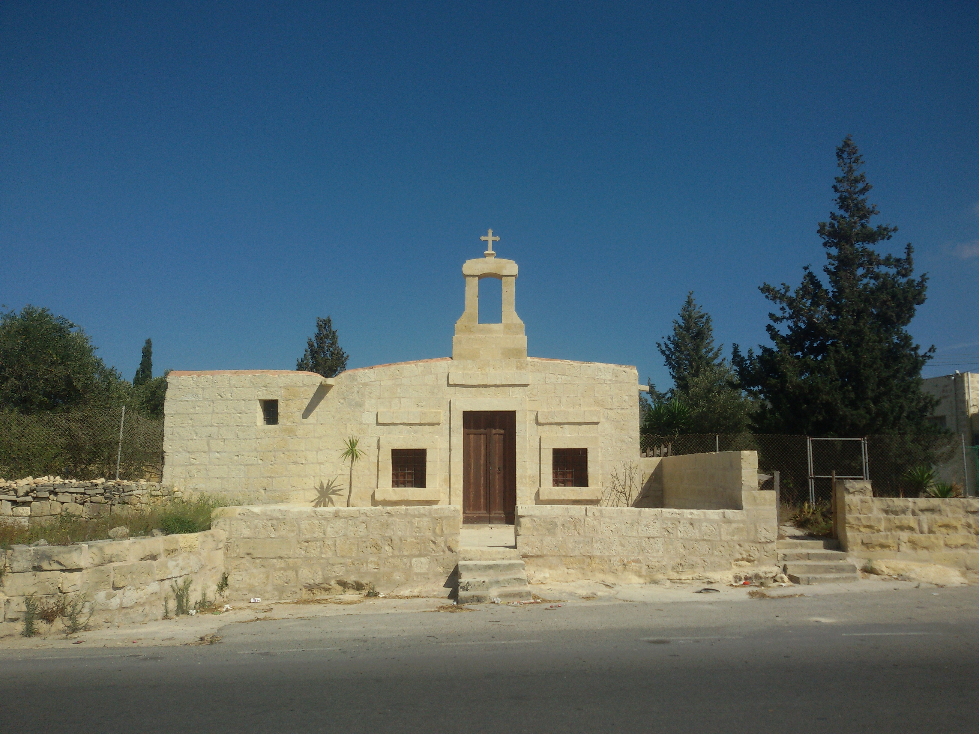 Church in Triq Raymomd Caruana, Gudja